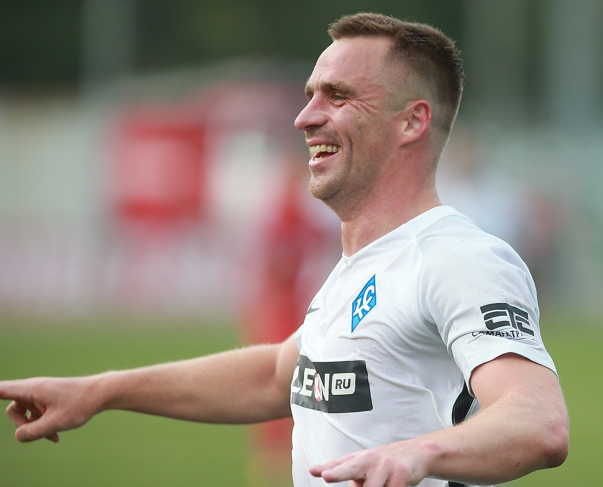 Sergei Kornilenko celebrating a goal for FC Krylia Sovetov Samara in a game against FC Spartak-2 Moscow.